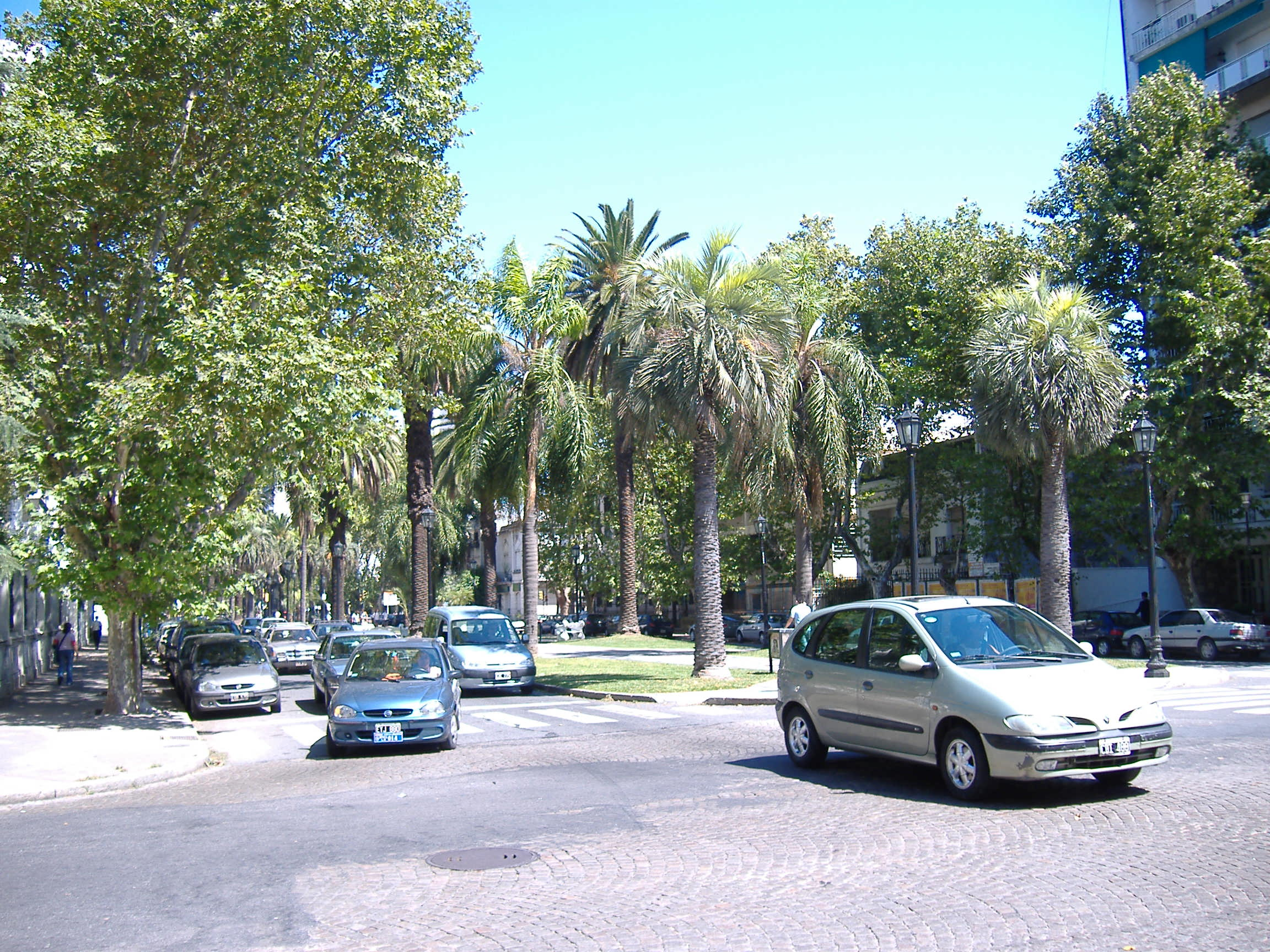 Bulevar Oroño (Oroño Boulevard) in downtown Rosario, Argentina. This is the corner of San Lorenzo St. This picture was taken by Pablo D. Flores on 7 March 2006.